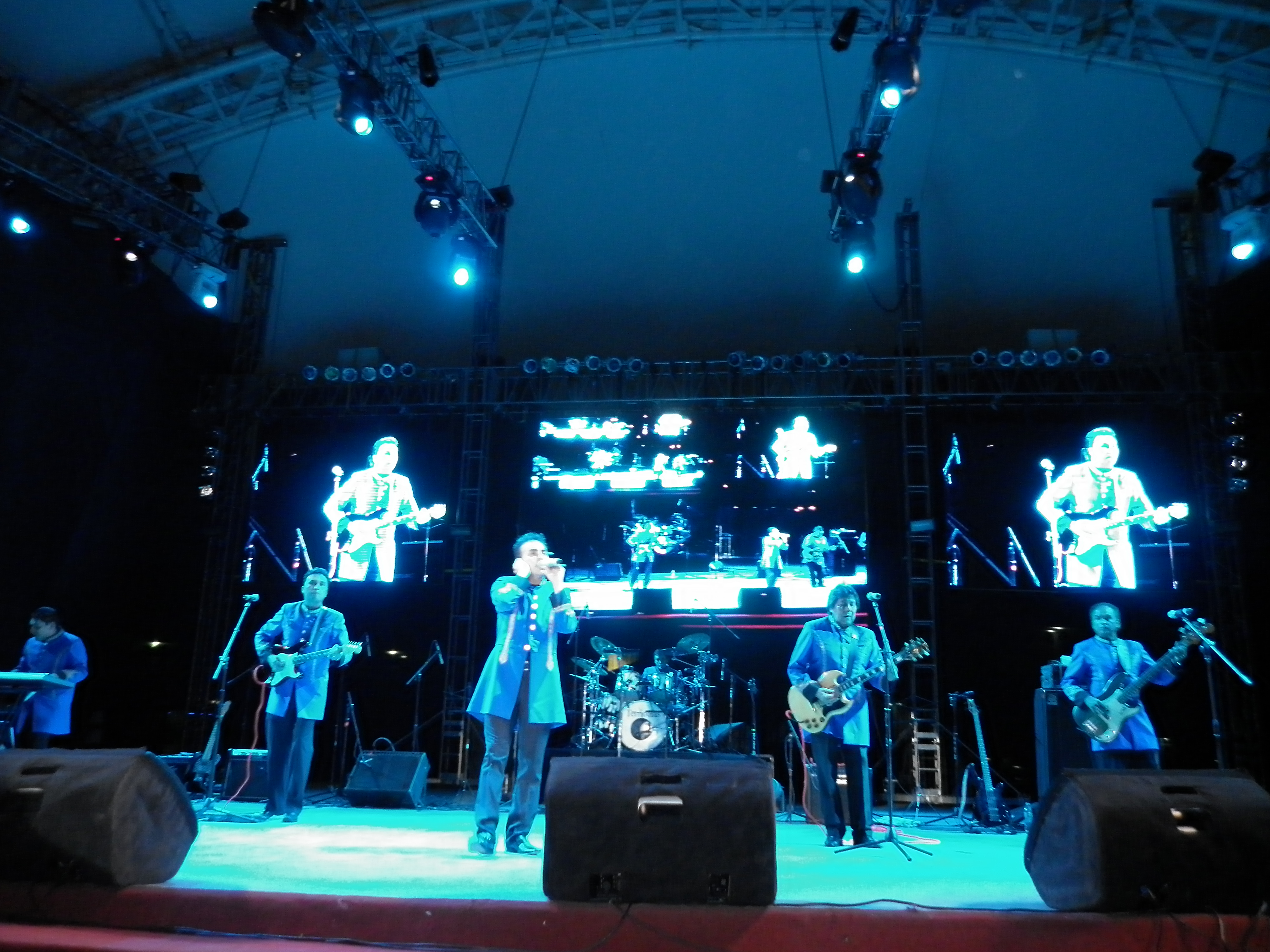 El grupo Mexicano LA TROPA LOCA en una actuación en vivo en la Feria de Durango Mexico